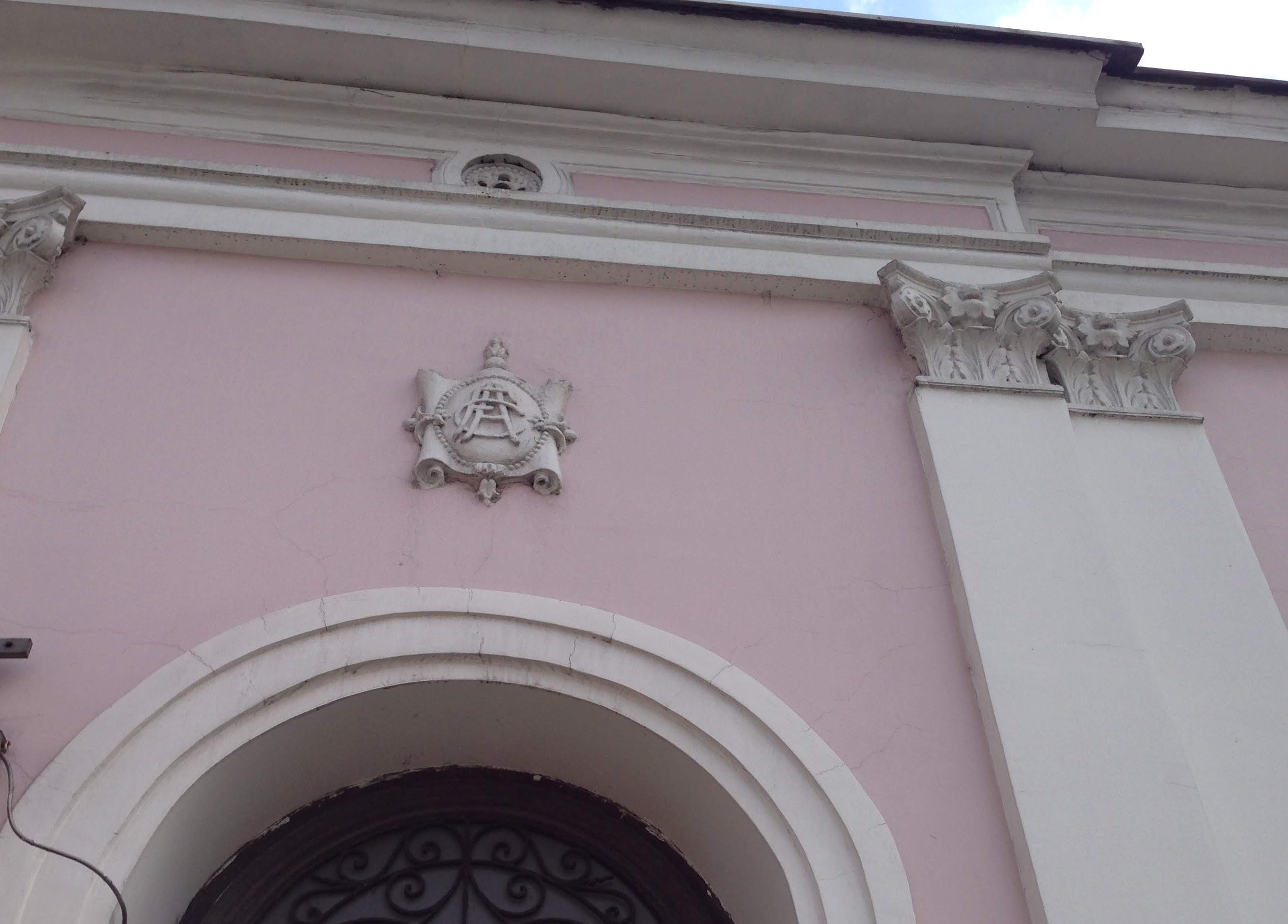 Abijan's house in Zemun, detail